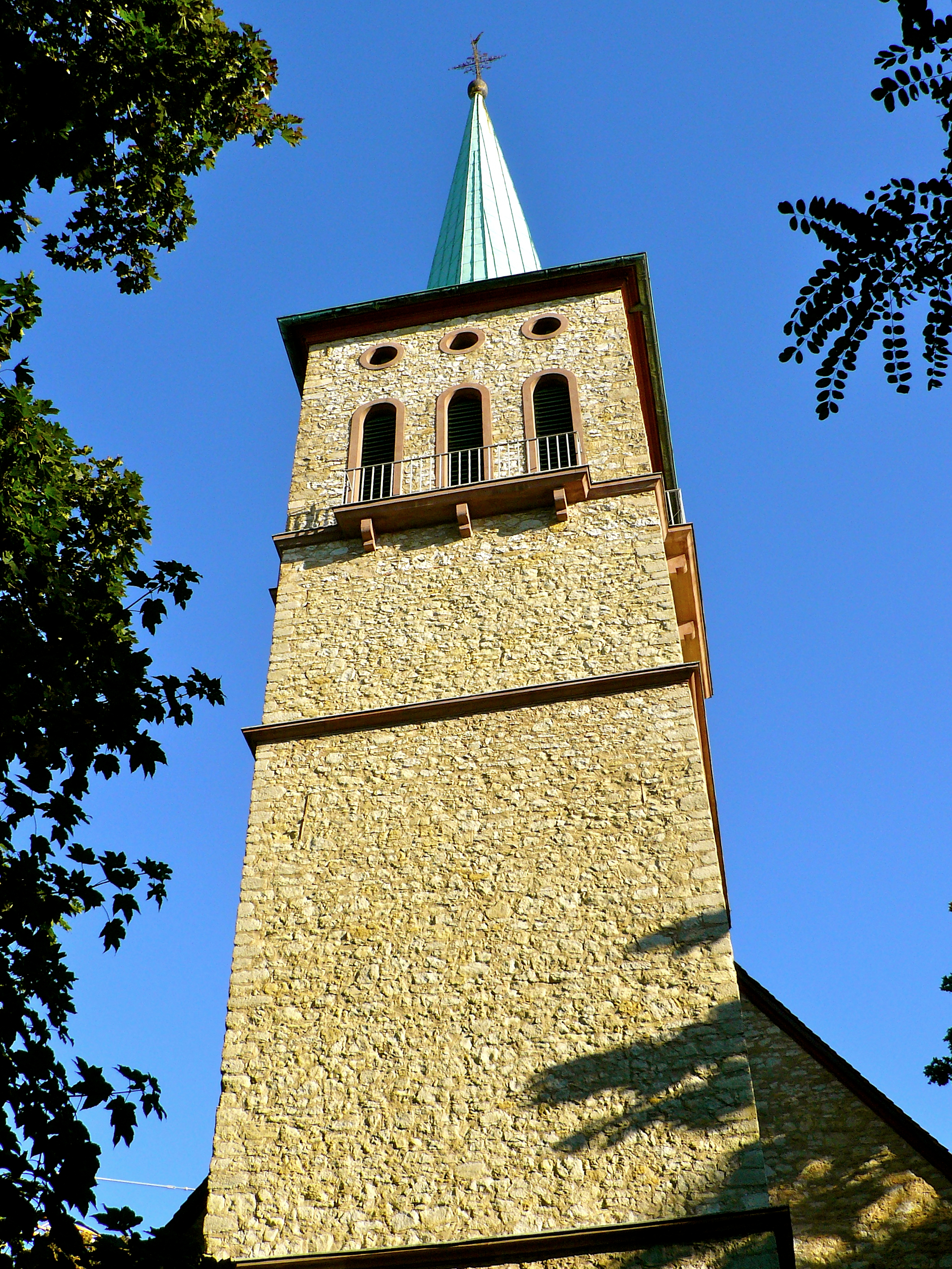 Steeple of St. Mary's Church in Seckbach (1710), Frankfurt, Hesse, Germany